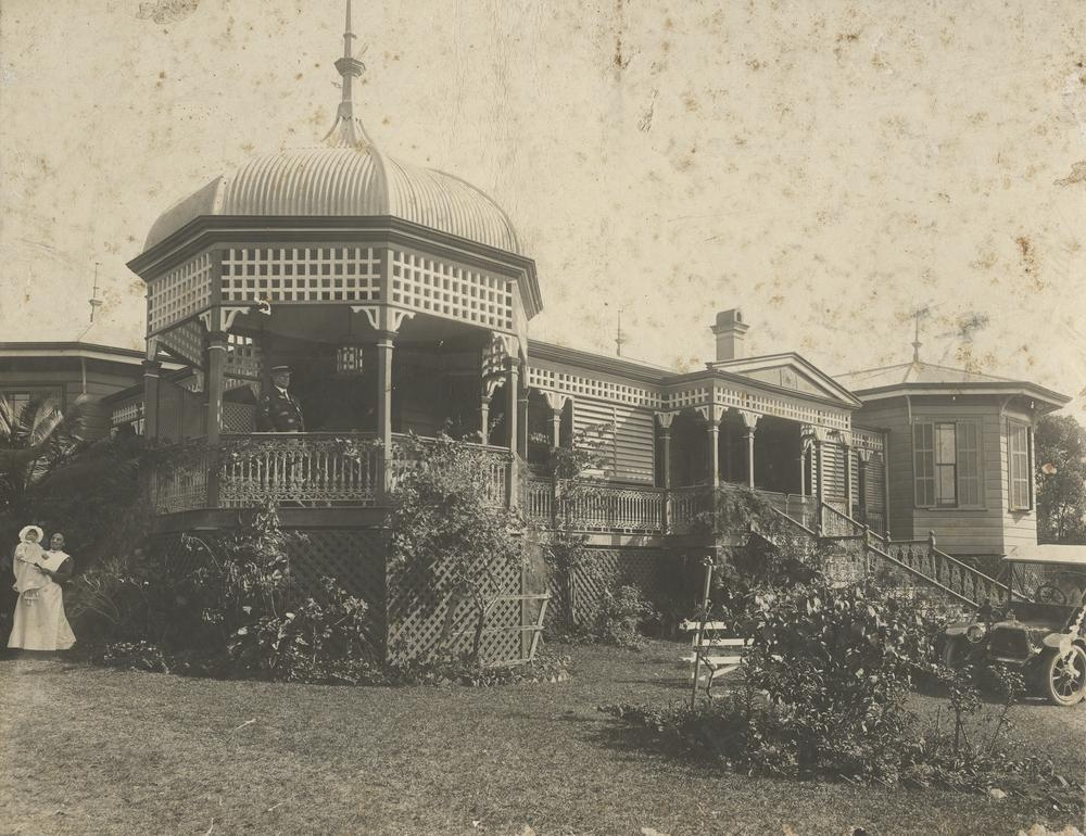 Windermere house at Ascot